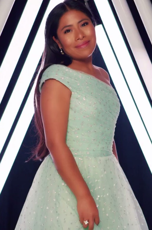 Yalitza Aparicio at a video promotional for the Oscars 2019